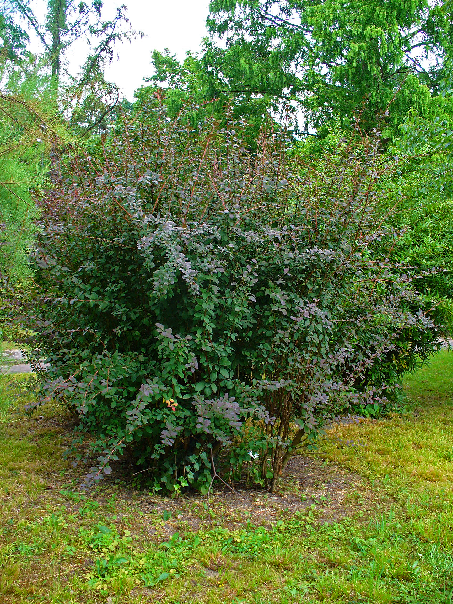 Berberis vulgaris ‘Atropurpurea’, Berberidaceae, European Barberry, habitus; Botanical Garden KIT, Karlsruhe, Germany. The bark is used in homeopathy as remedy: Berberis (Berb.)